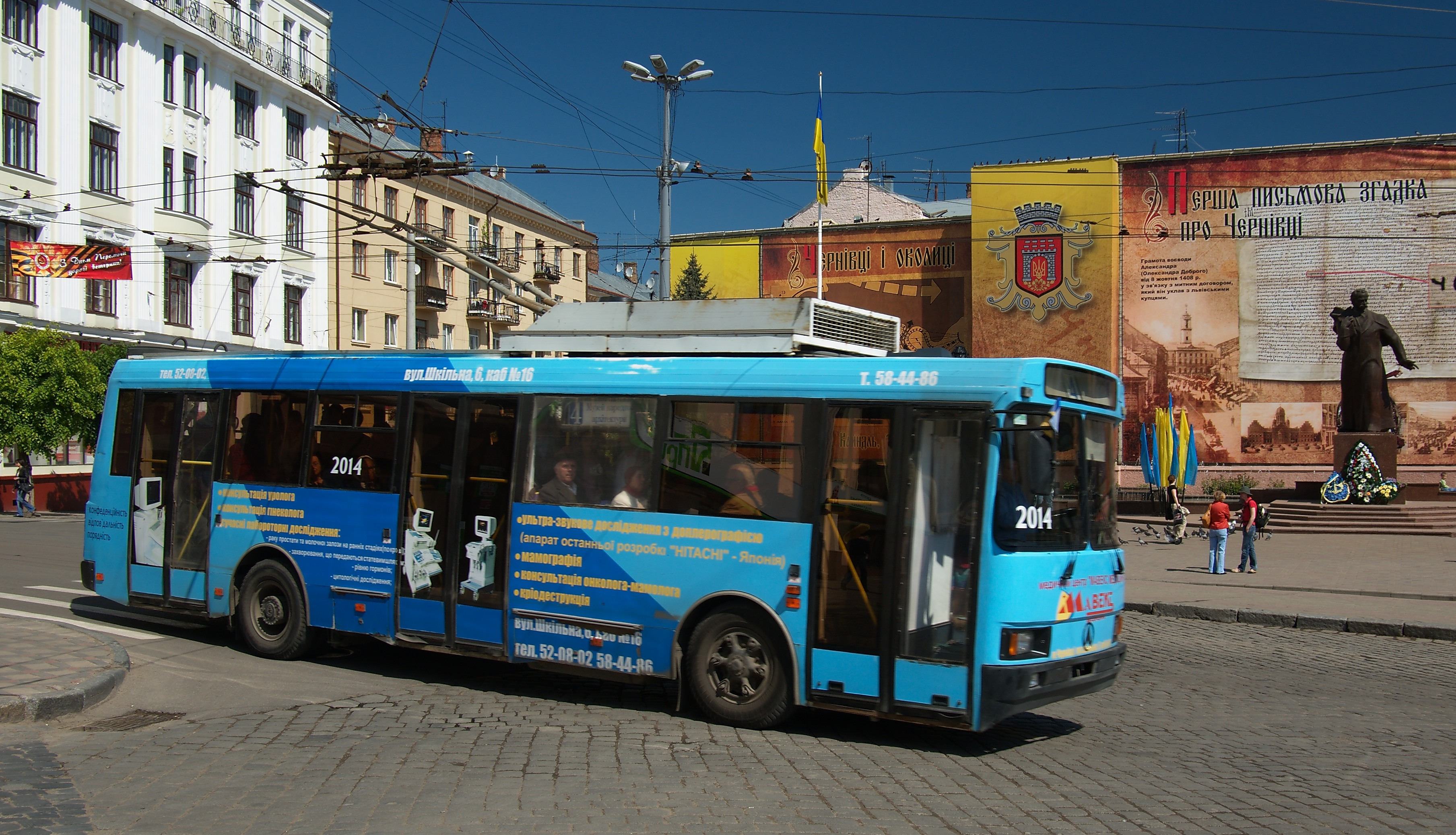 LAZ 52522 Trolleybus in Chernivtsi